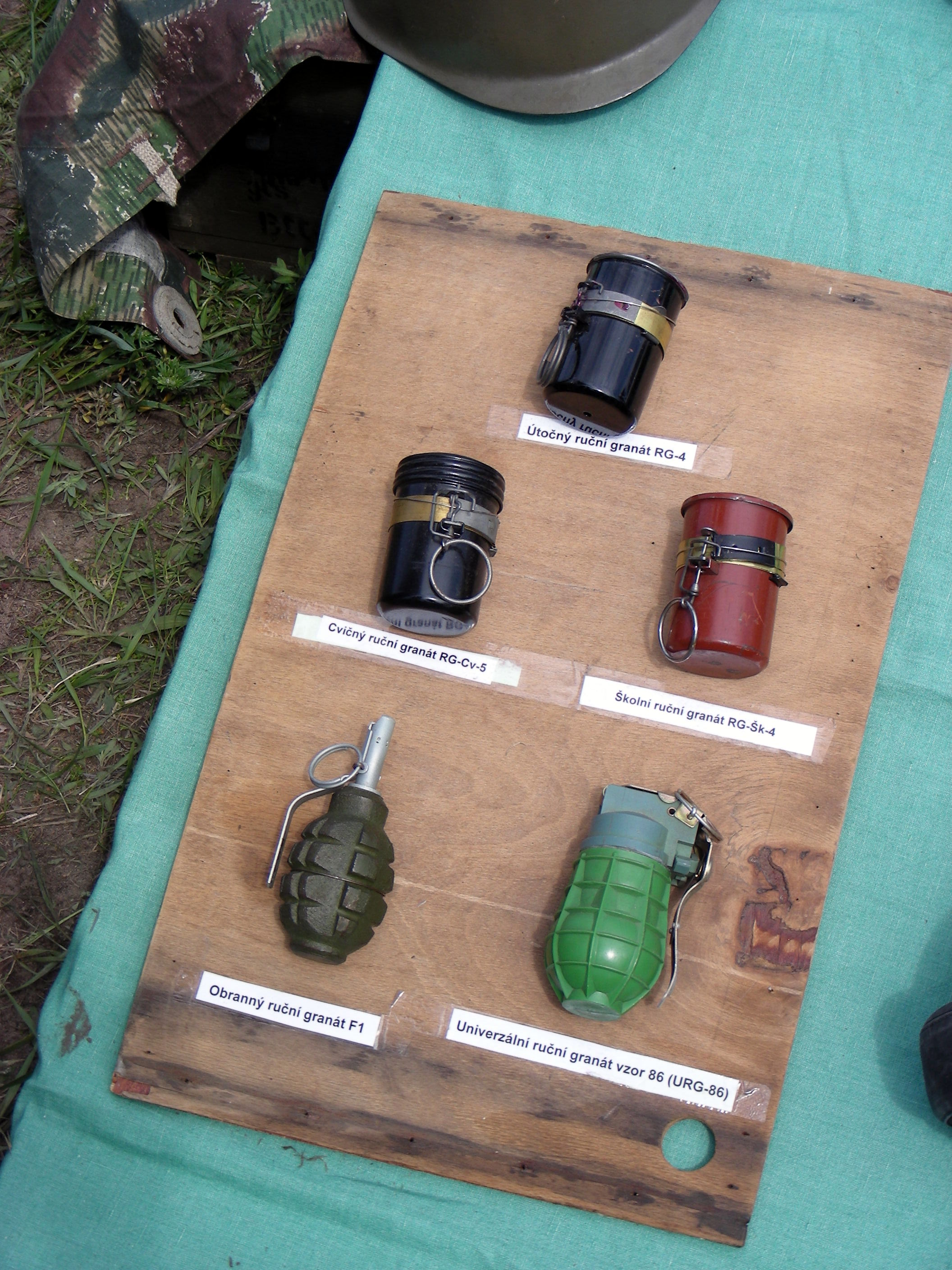 Czechoslovak hand grenades: RG-4, RG-Cv-5, RG-Šk-4, F1 and URG-86